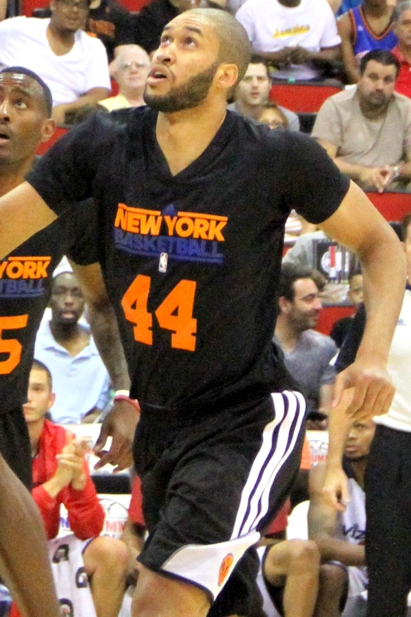 Jerome Jordan playing for the Knicks in the 2013 Las Vegas Summer League